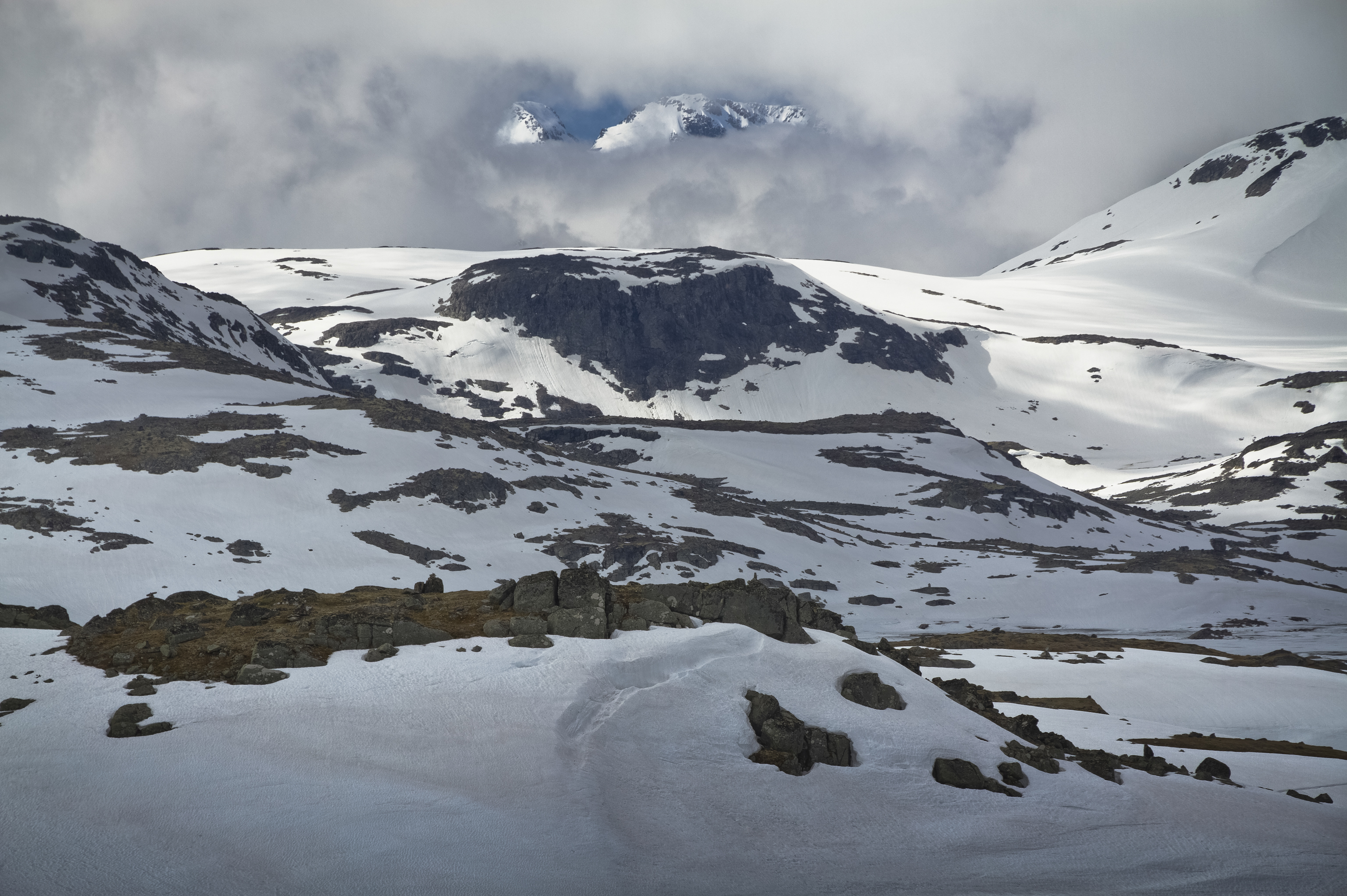 Some Hurrungane peaks looming between clouds above Grånosi in Jotunheimen highlands from Sognefjellet, Lom municipality, Oppland, Norway in 2013 June.